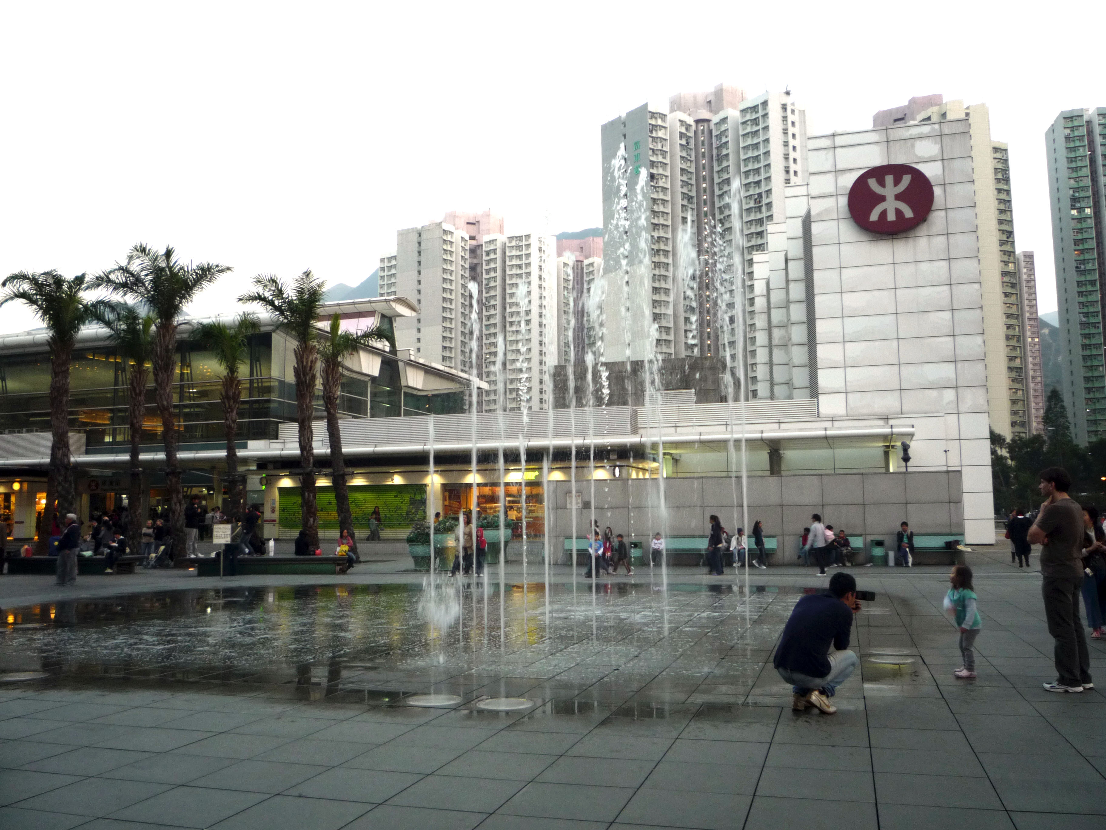 Appearance of MTR Tung Chung Station